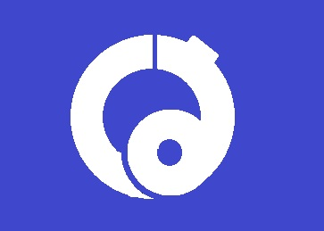 Flag of Hanawa Fukushima